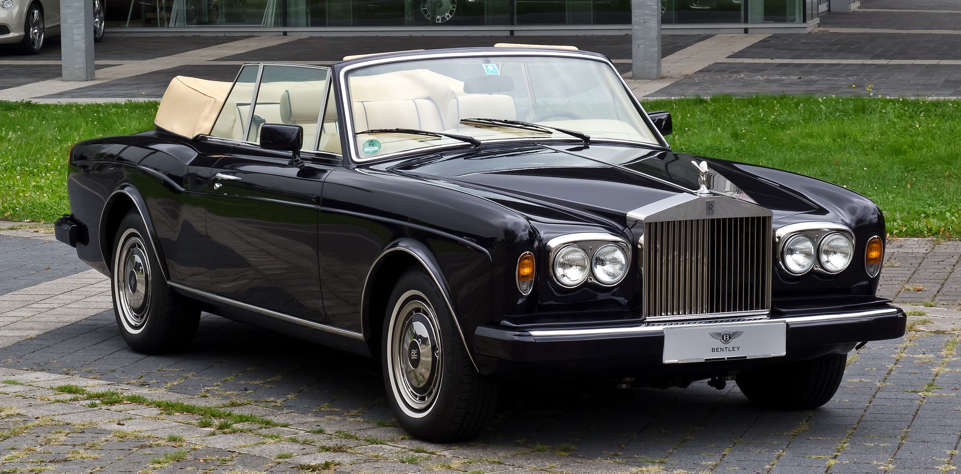 Rolls-Royce Corniche (III)